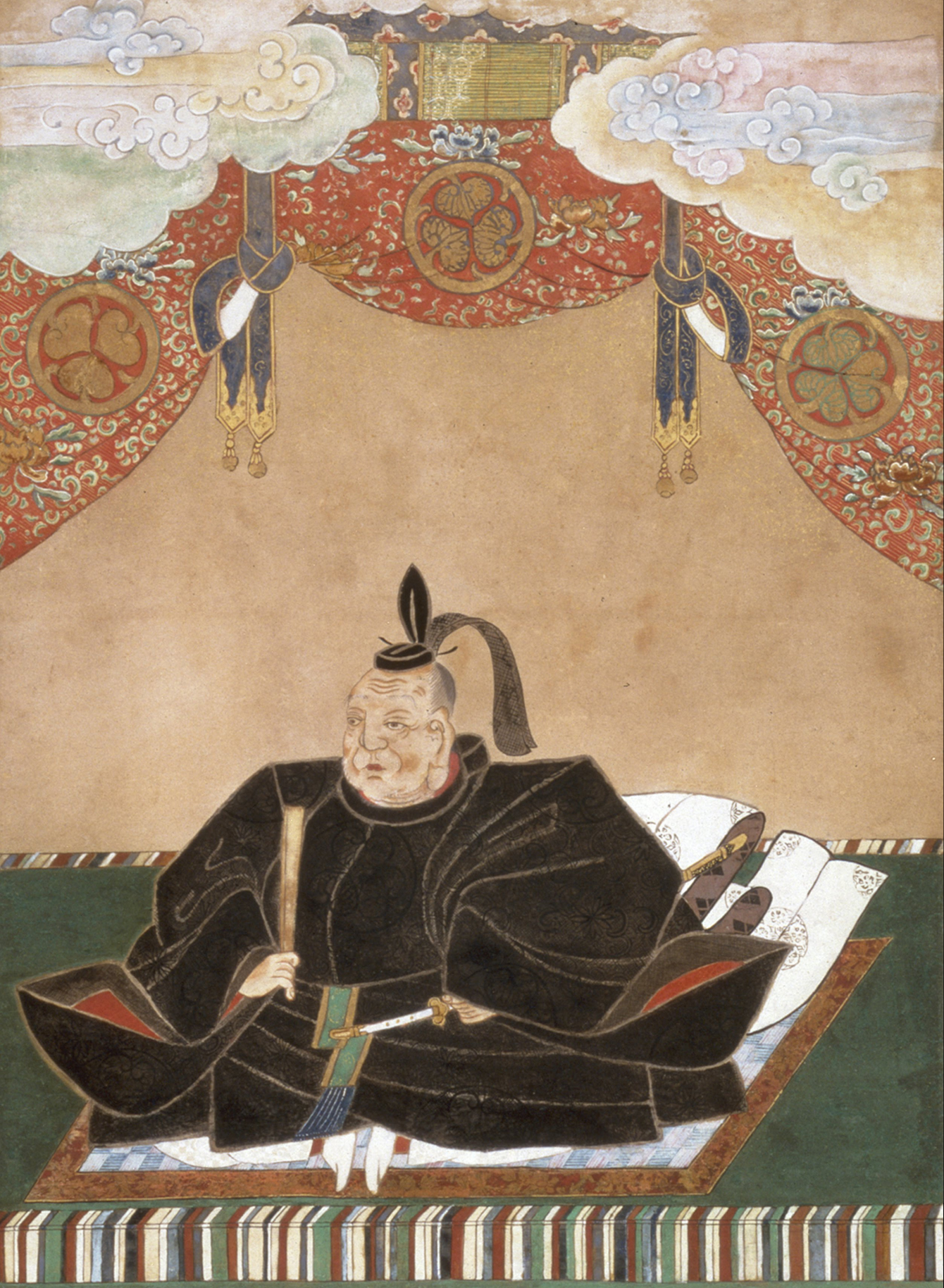 Portrait of Tokugawa Ieyasu as a Shintō Deity Tōshō-daigongen. Tokugawa is in his old age.